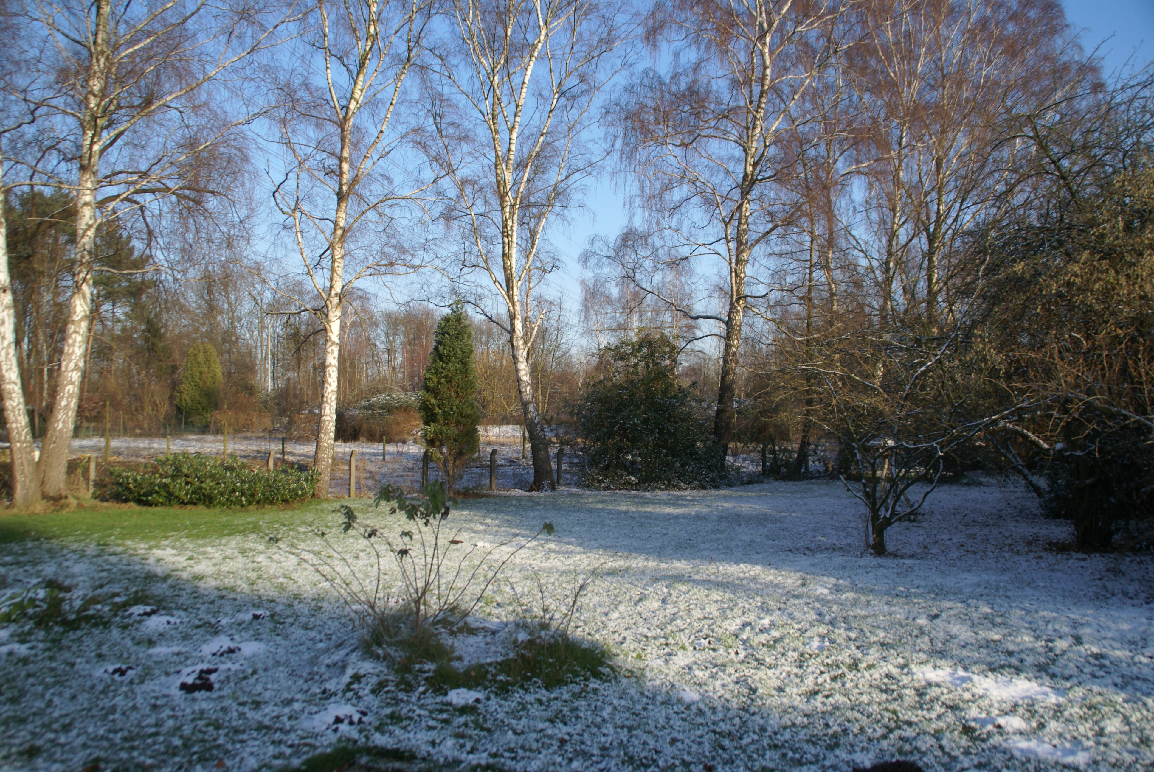 Hamburg (Lokstedt), Germany: A Winter view of the valley of the river Alte Kollau at the Hagendeel Street